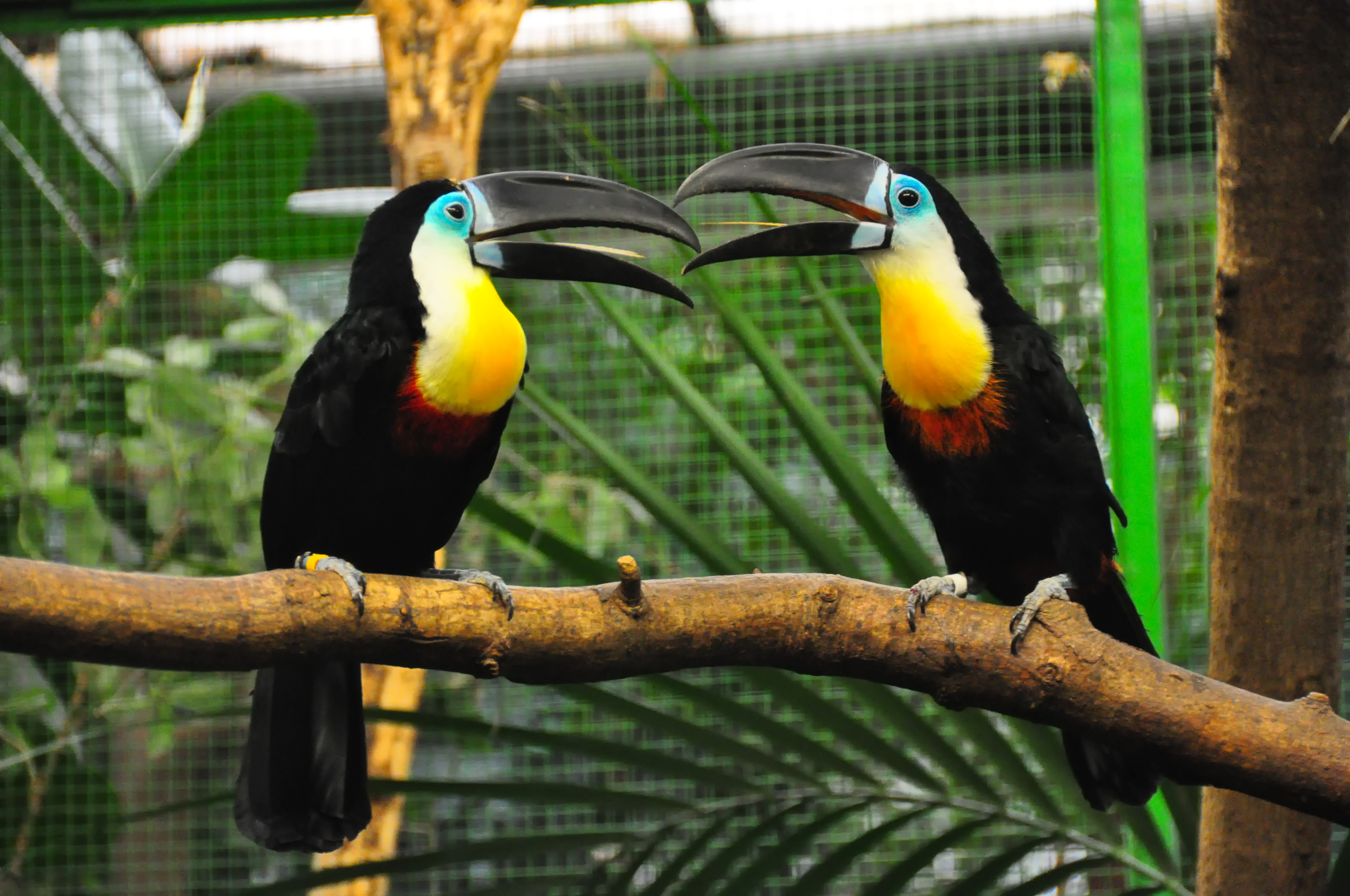 A couple of Channel-billed Toucan (Ramphastos vitellinus) at Weltvogelpark Walsrode (Walsrode Bird Park, Germany)